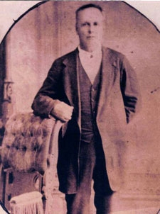 Col. Santos Benavides, served three terms in the Texas State Legislature from 1879 to 1885; Ursuline Sisters Collection, The University of Texas Rio Grande Valley, Webb County Heritage Foundation (WCHF), Laredo, Texas